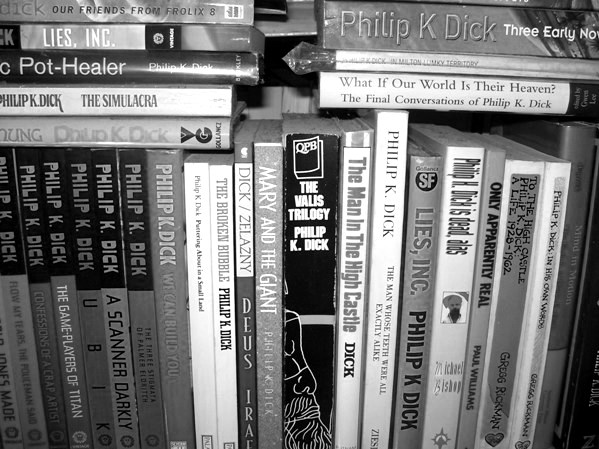 Black and white photograph of a shelf og books by and about Philip K. Dick, showing the spines only